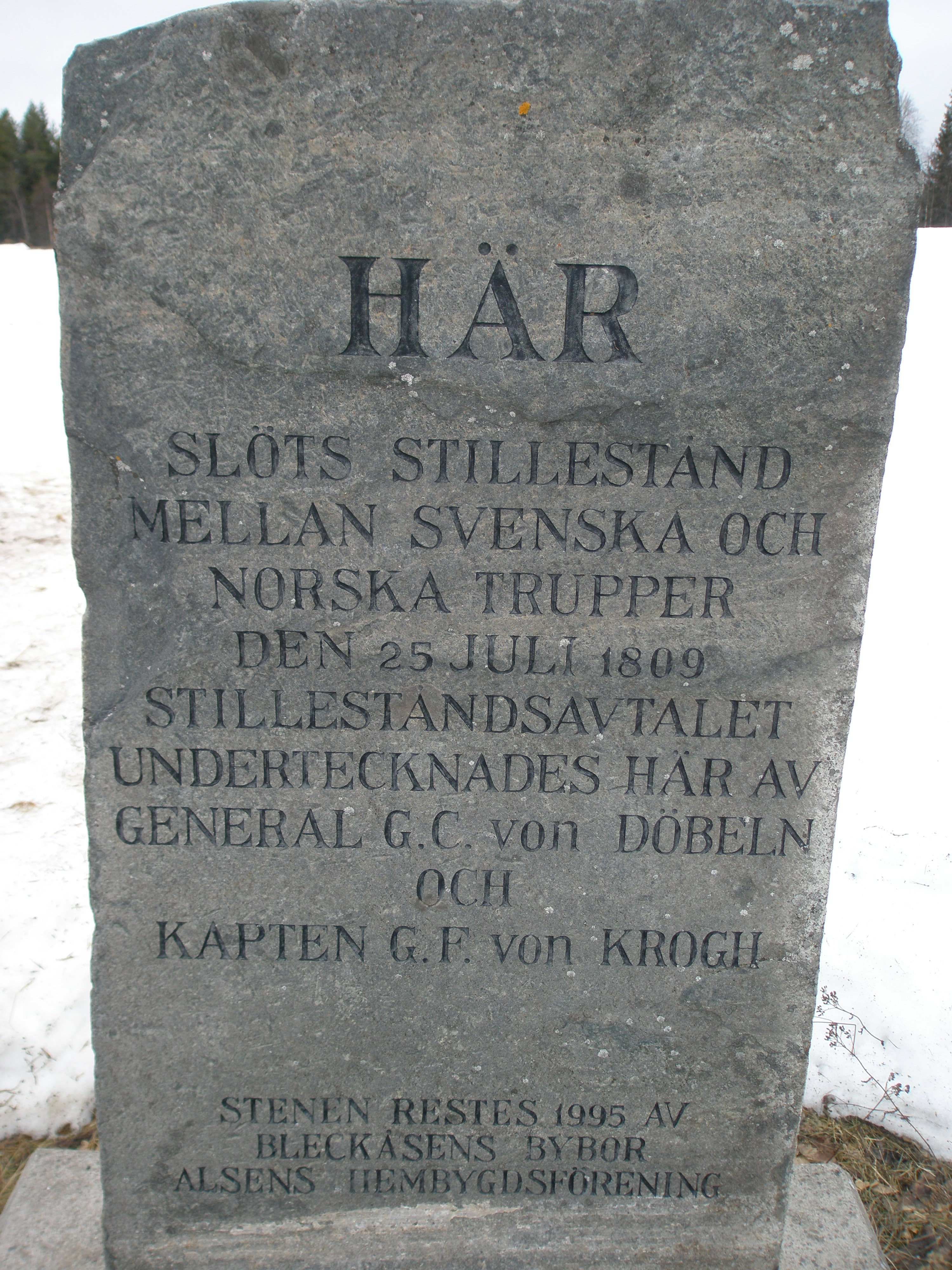 Bleckåsen, Alsen, Krokom, Jämtland, Sweden.